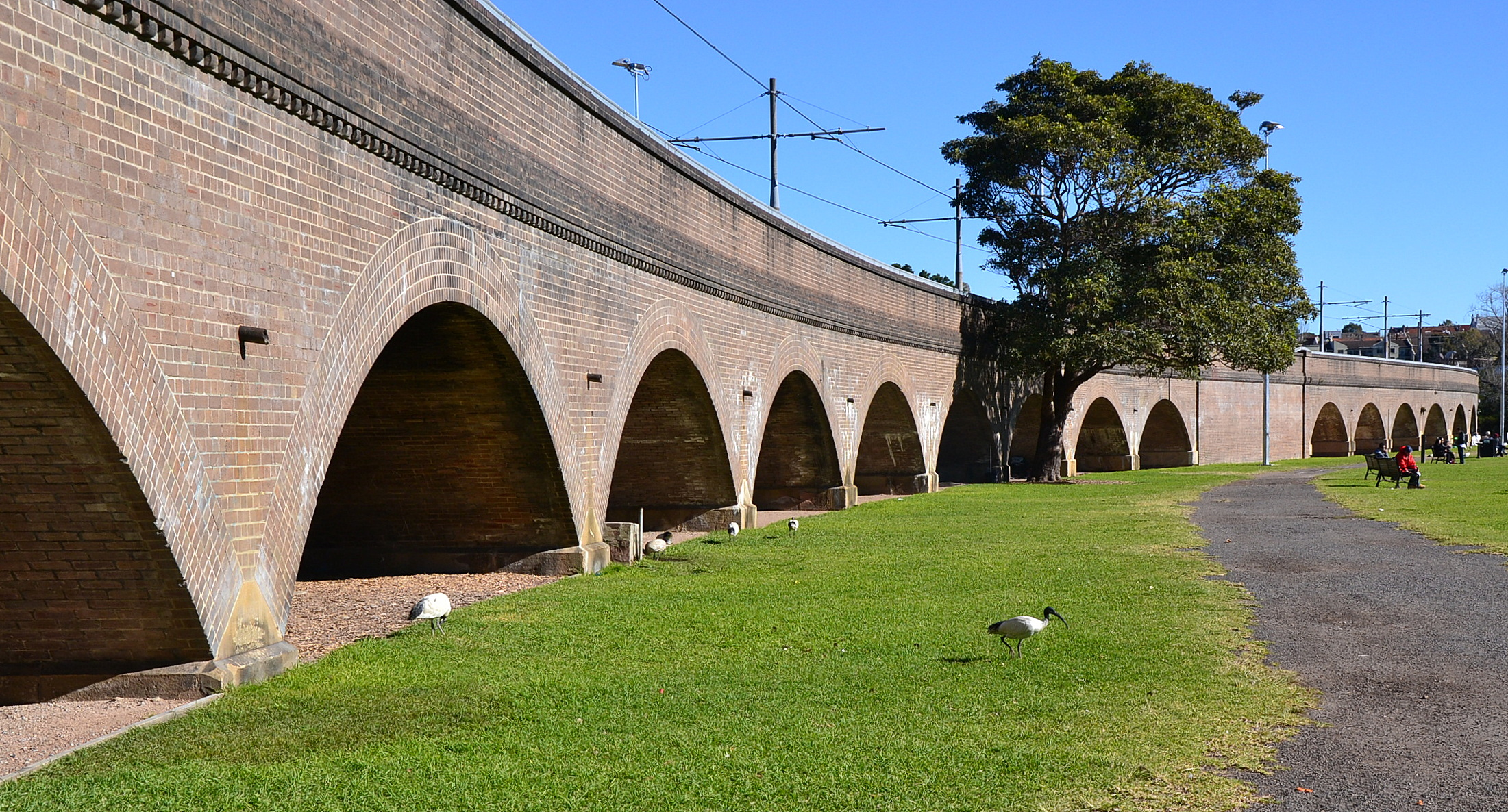 Wentworth Park, Ultimo, Sydney